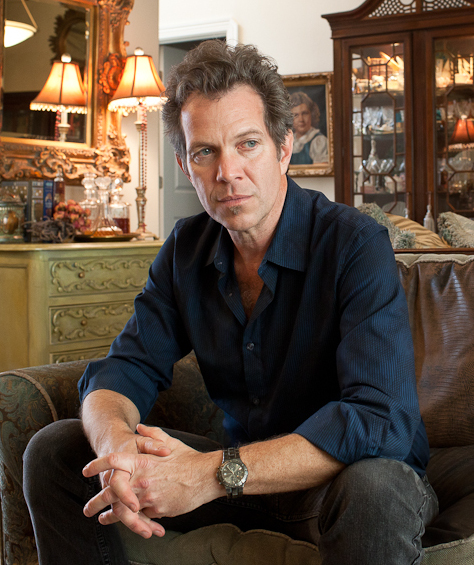 .jpg of Joe Doerr seated by Leon Alesi.